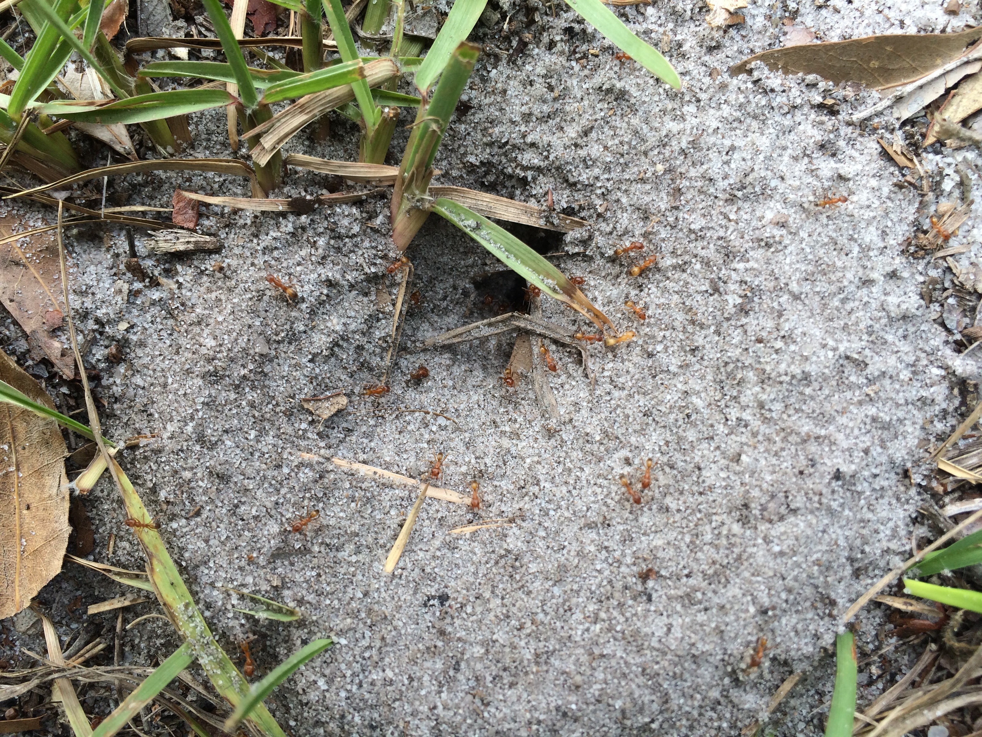 This is a photo took of Dorymyrmex bureni. Notice the crater like mount of sand at the entrance of the hole. Taken in Gainesville, Florida.